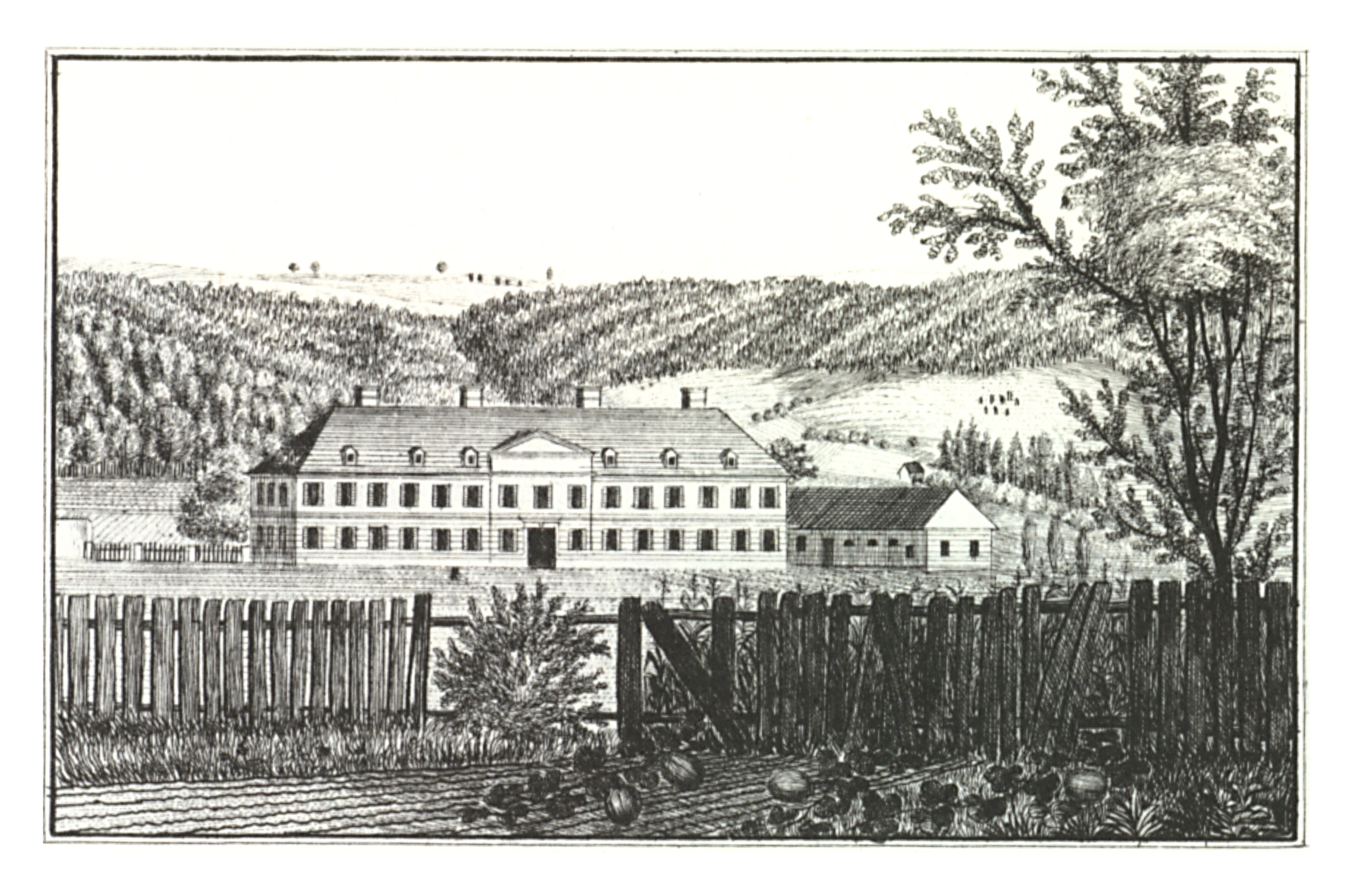 J. F. Kaiser - lithographirte Ansichten der Steyermärkischen Städte, Märkte und Schlösser Graz, 1825 Scanprojekt Community Projektbudget 2012 This scan or this PDF-file was created within the GLAM-project Bookscanning, supported by Wikimedia Germany and Wikimedia Austria as a part of the community-project to capture books, documents and pictures which are not eligible to copyright or for which the copyright has expired. This document describes or depicts an object which is located in Austria today. Send requests for uncompressed scans to Hubertl. This work is in the public domain in its country of origin and other countries and areas where the copyright term is the author's life plus 100 years or less. You must also include a United States public domain tag to indicate why this work is in the public domain in the United States. This file has been identified as being free of known restrictions under copyright law, including all related and neighboring rights.